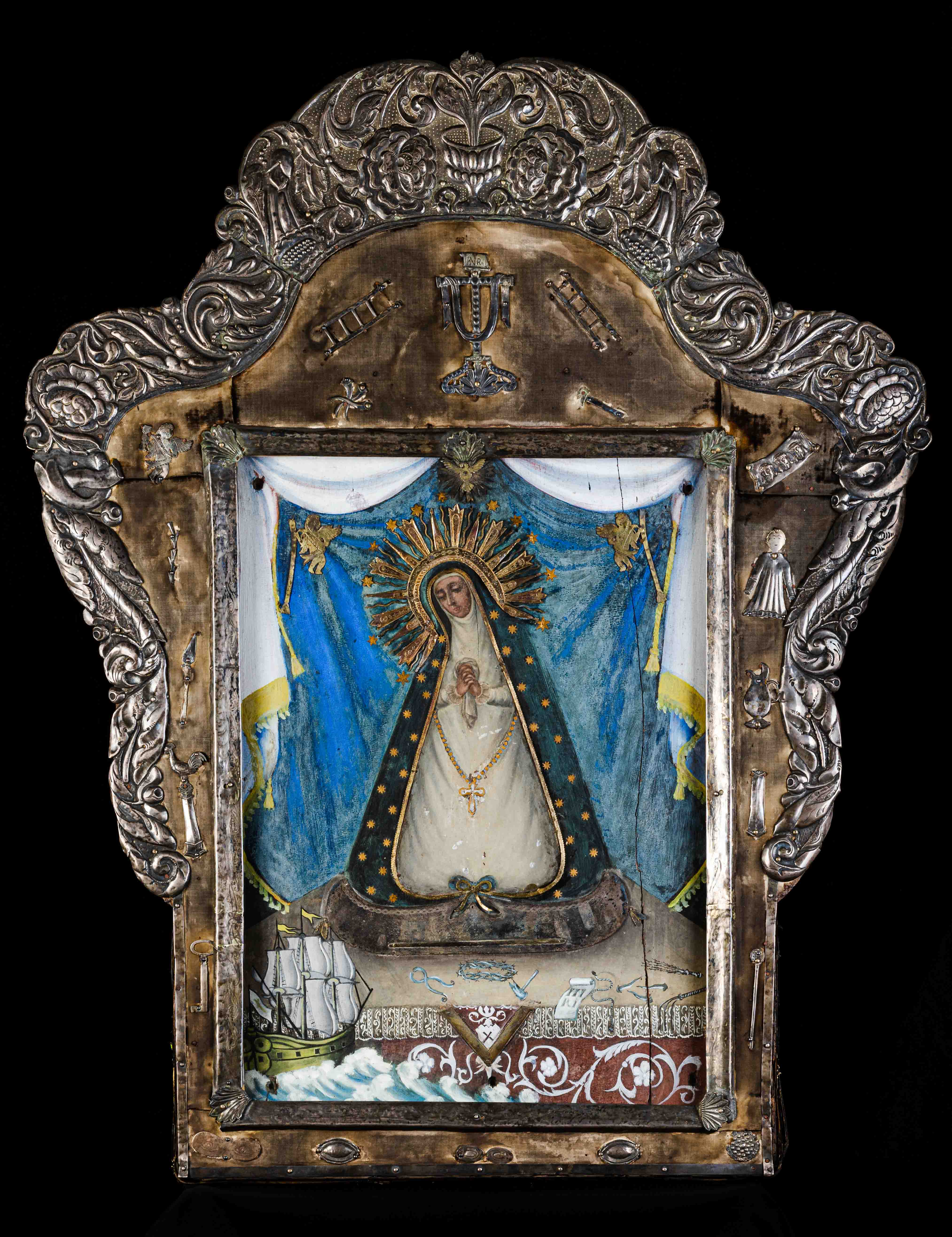 Image of our Lady of Solitude venerated at San Isidro Parish Church, San Isidro Nueva Ecija, Philippines